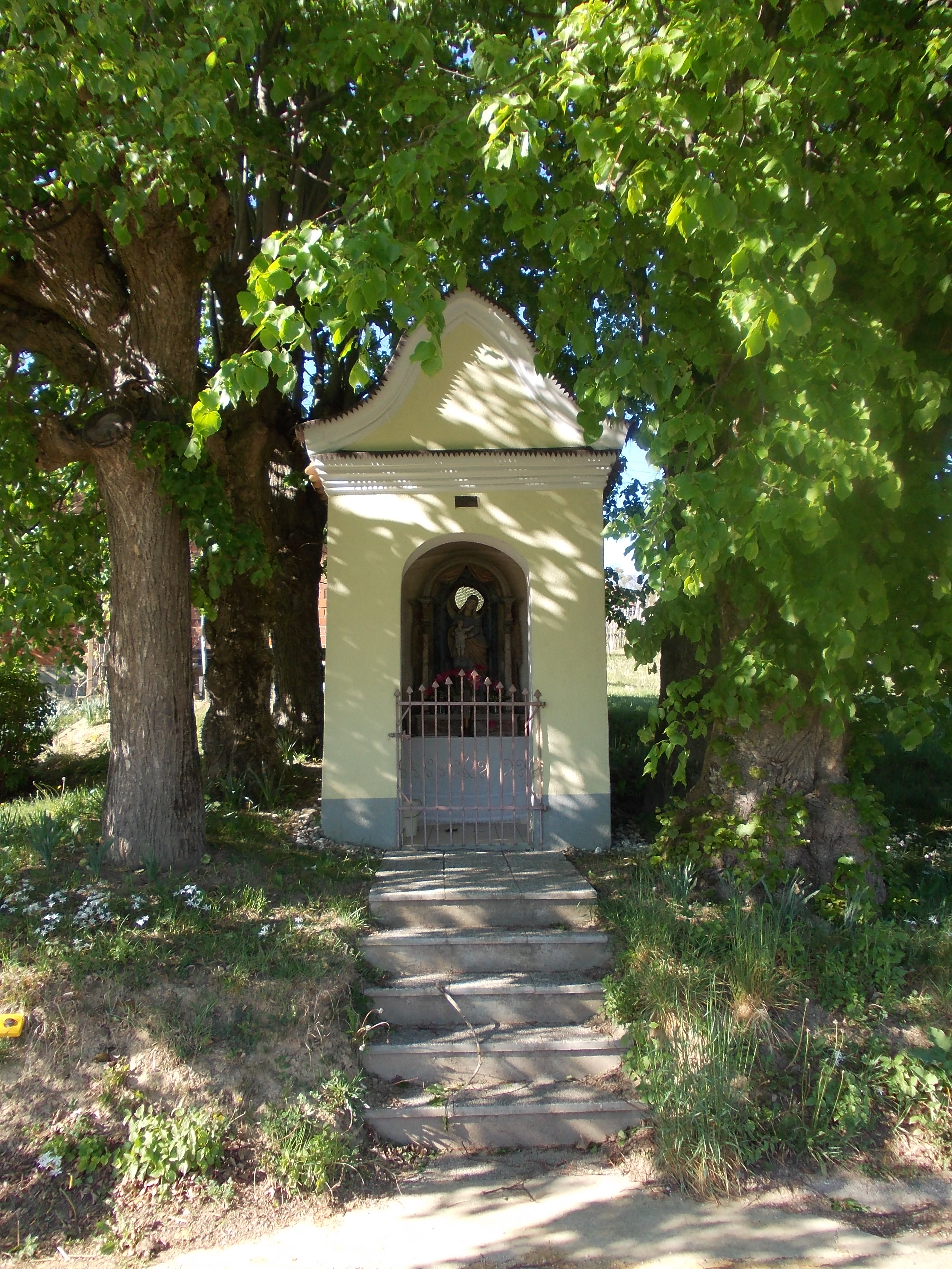 Strgar chapel in Mali Vrh, Brežice municipality